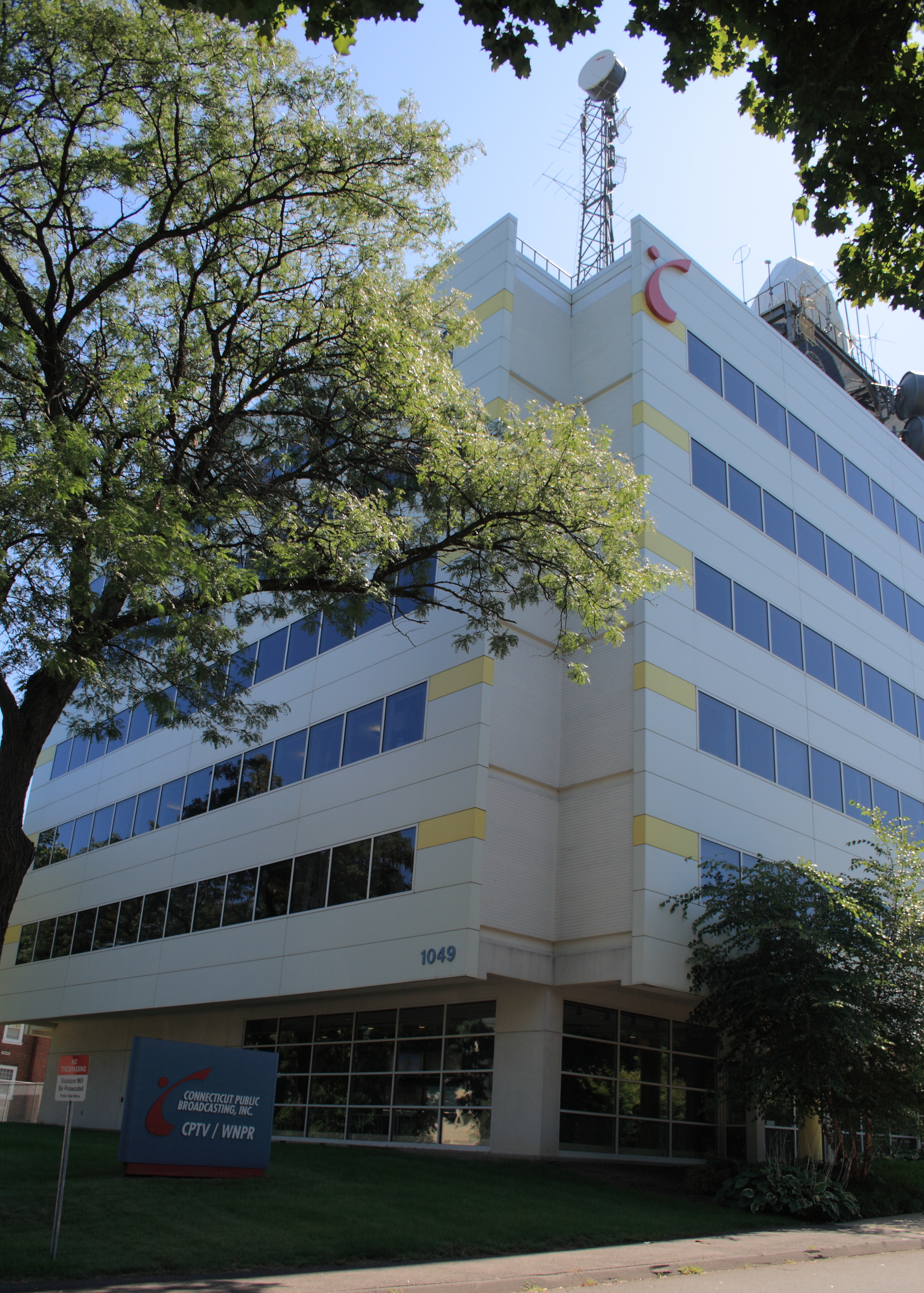 Connecticut Public Broadcasting, Inc. building, 1049 Asylum Street in Hartford, Connecticut, the home of CPTV and WPNR